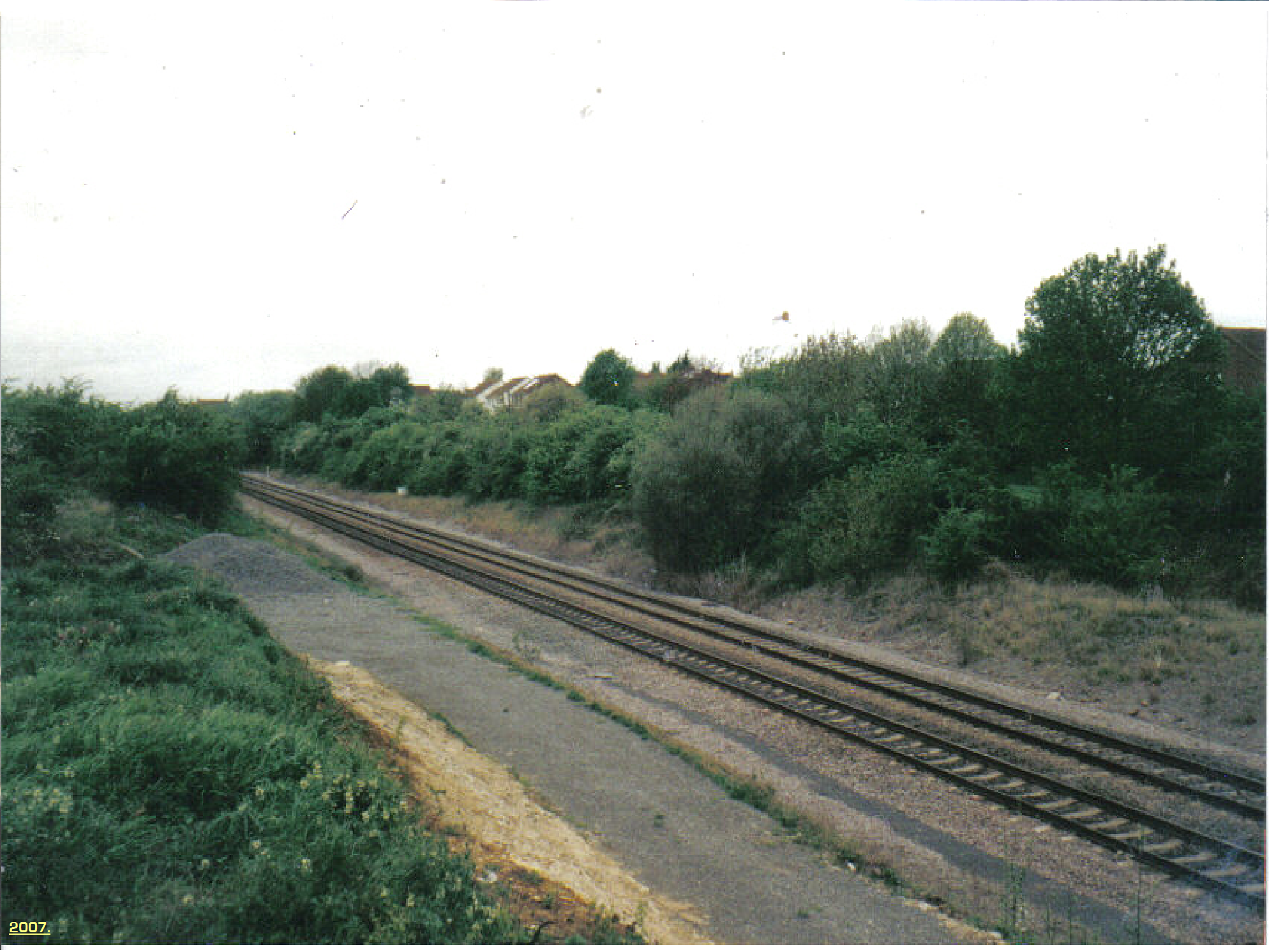 (I took the picutre of Haddenham's old staion my self in the year 2007. I hearby release it in to the public domain. )